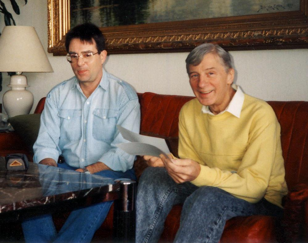 Former nightclub owners Peter Dunk (Gästerfält) and Bertil Säfbom, as released by image owner Lars Jacob ProdPlace: Gullmarsplan 2, Stockholm, Sweden